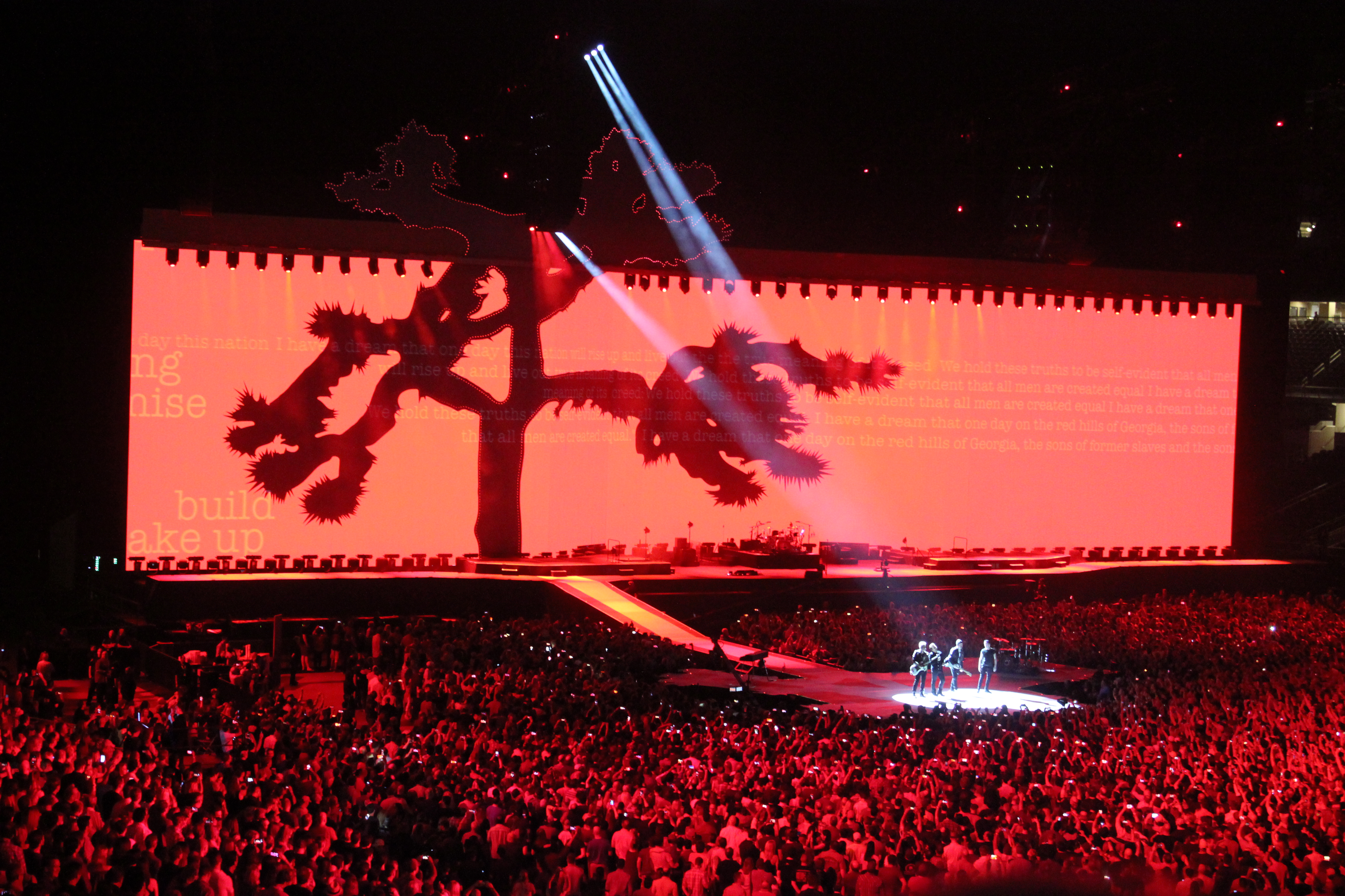 U2 during a May 26, 2017 concert in Arlington, TX at AT&T Stadium